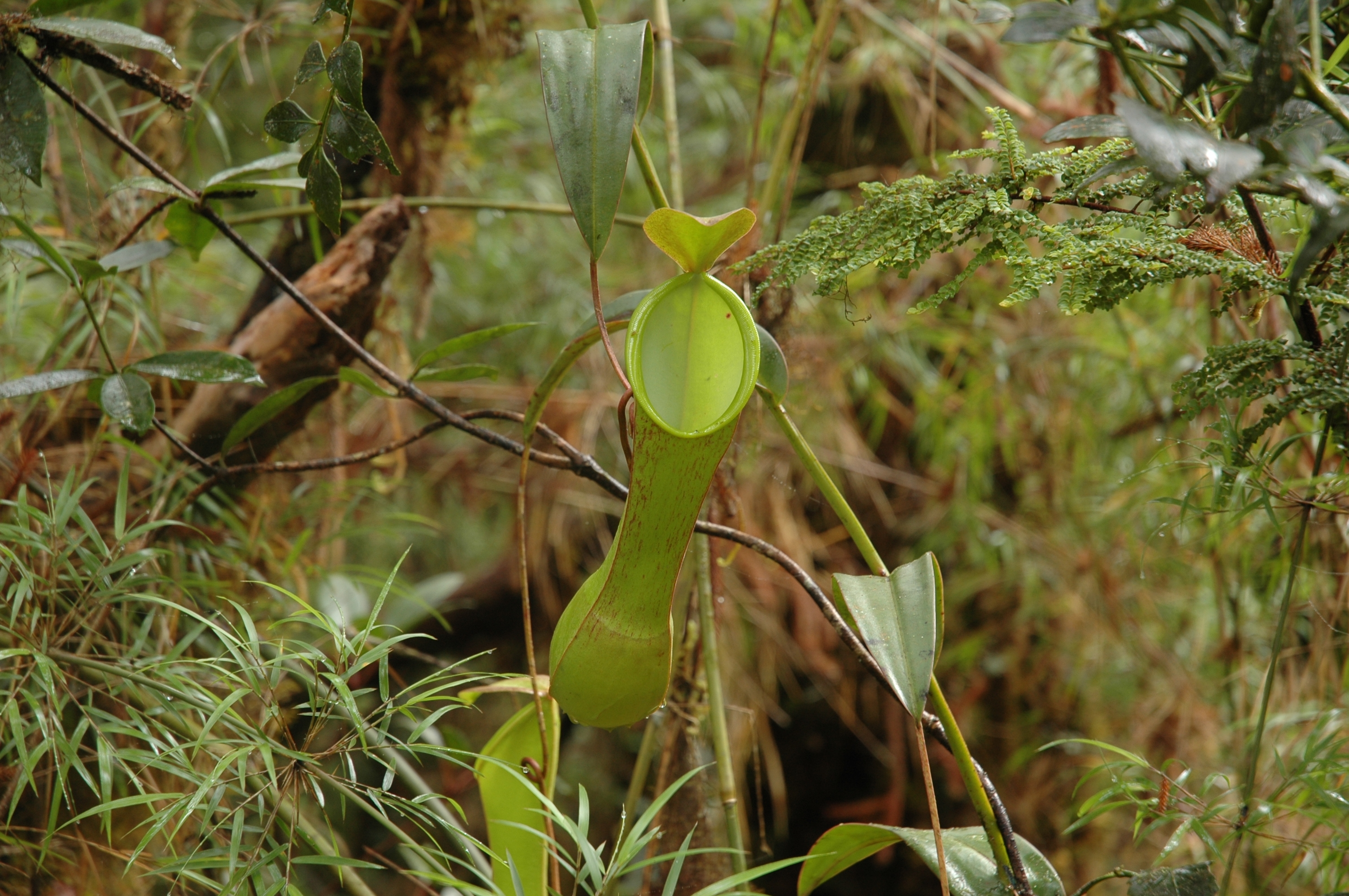 Nepenthes murudensis Gunung Murud by Jeremiah Harris